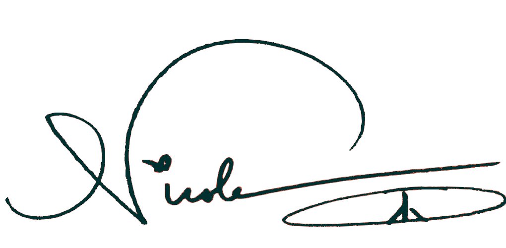 Signature Nicole Scherzinger